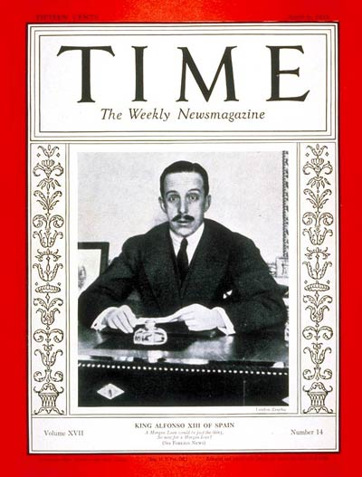 Alfonso XIII of Spain on Time magazine cover, 1931.